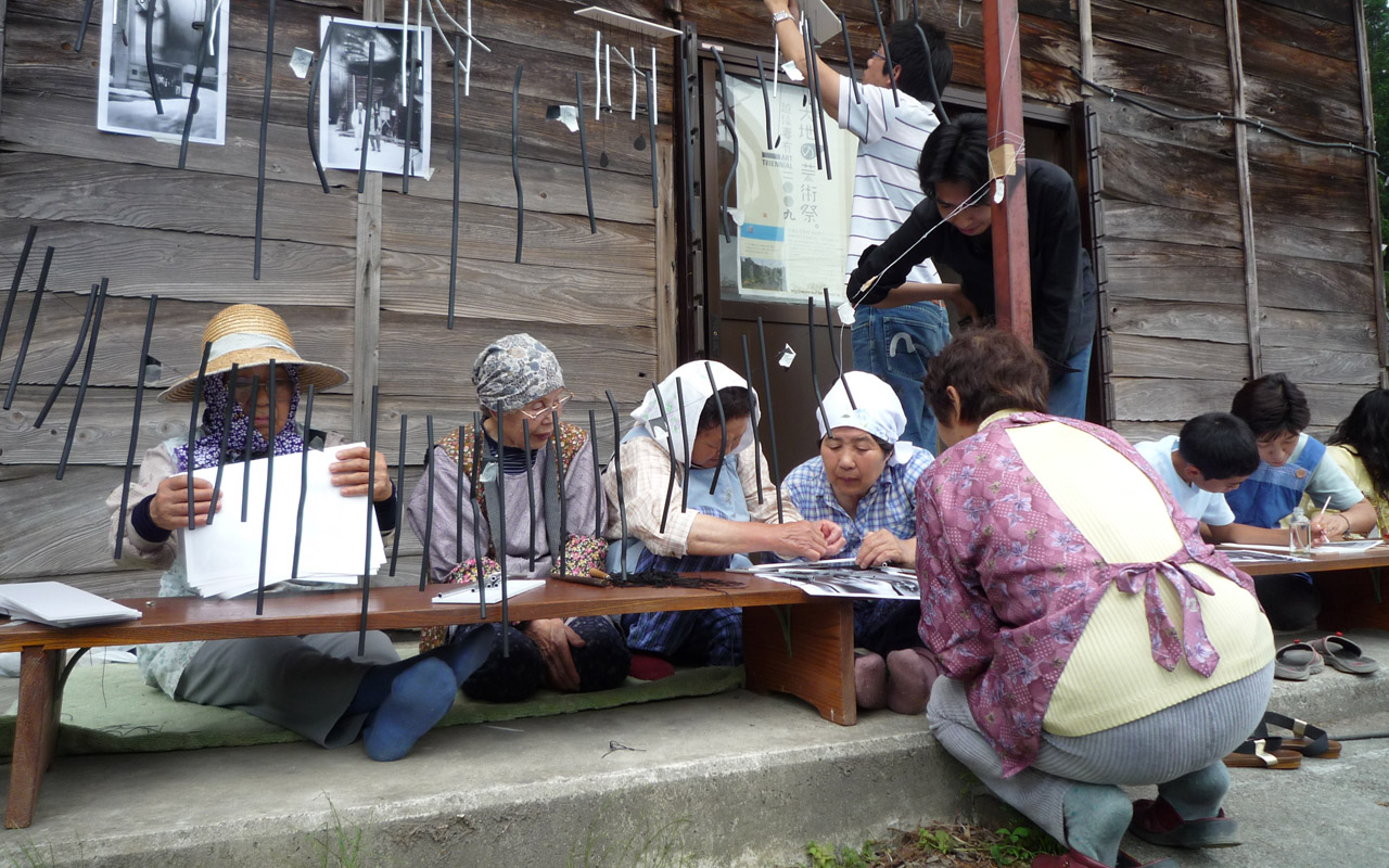 Image of workshop with the locals, Echigo Tsumari Art Triennial 2010